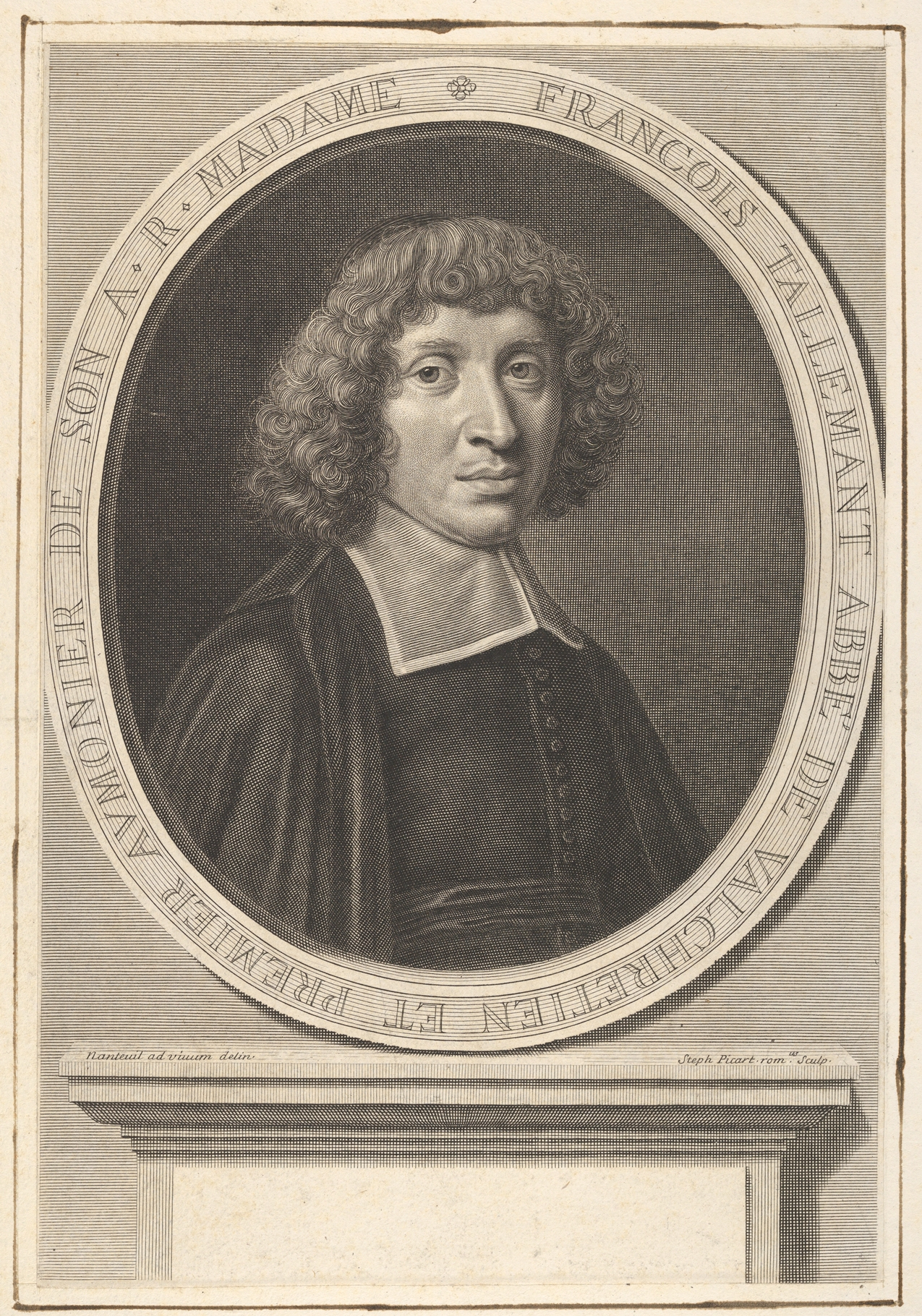 Print; Prints